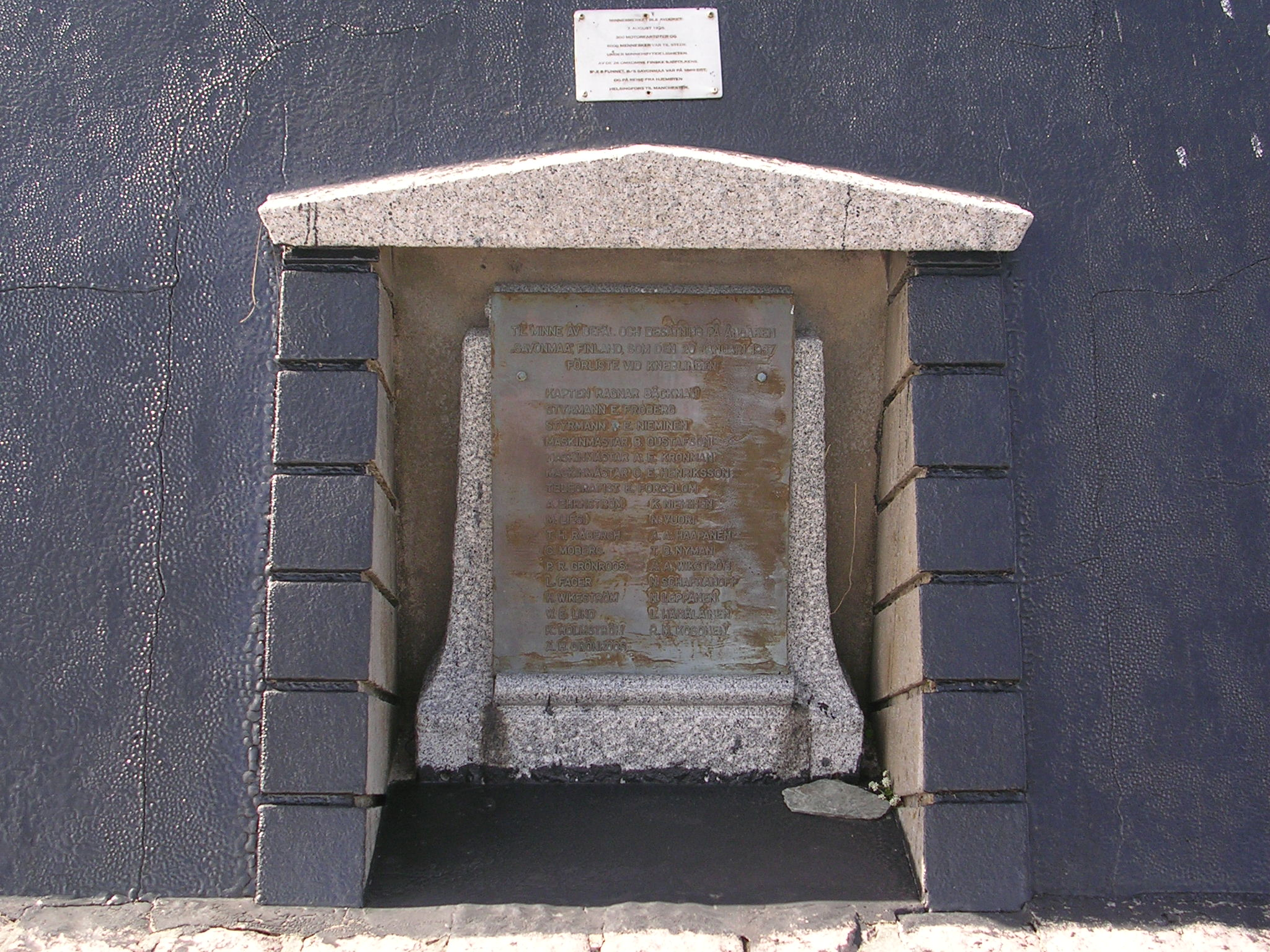 Names of the deceased on the SS Savonmaa memorial statue (heading towards southeast), Kneblingen island, Mandal, Norway.